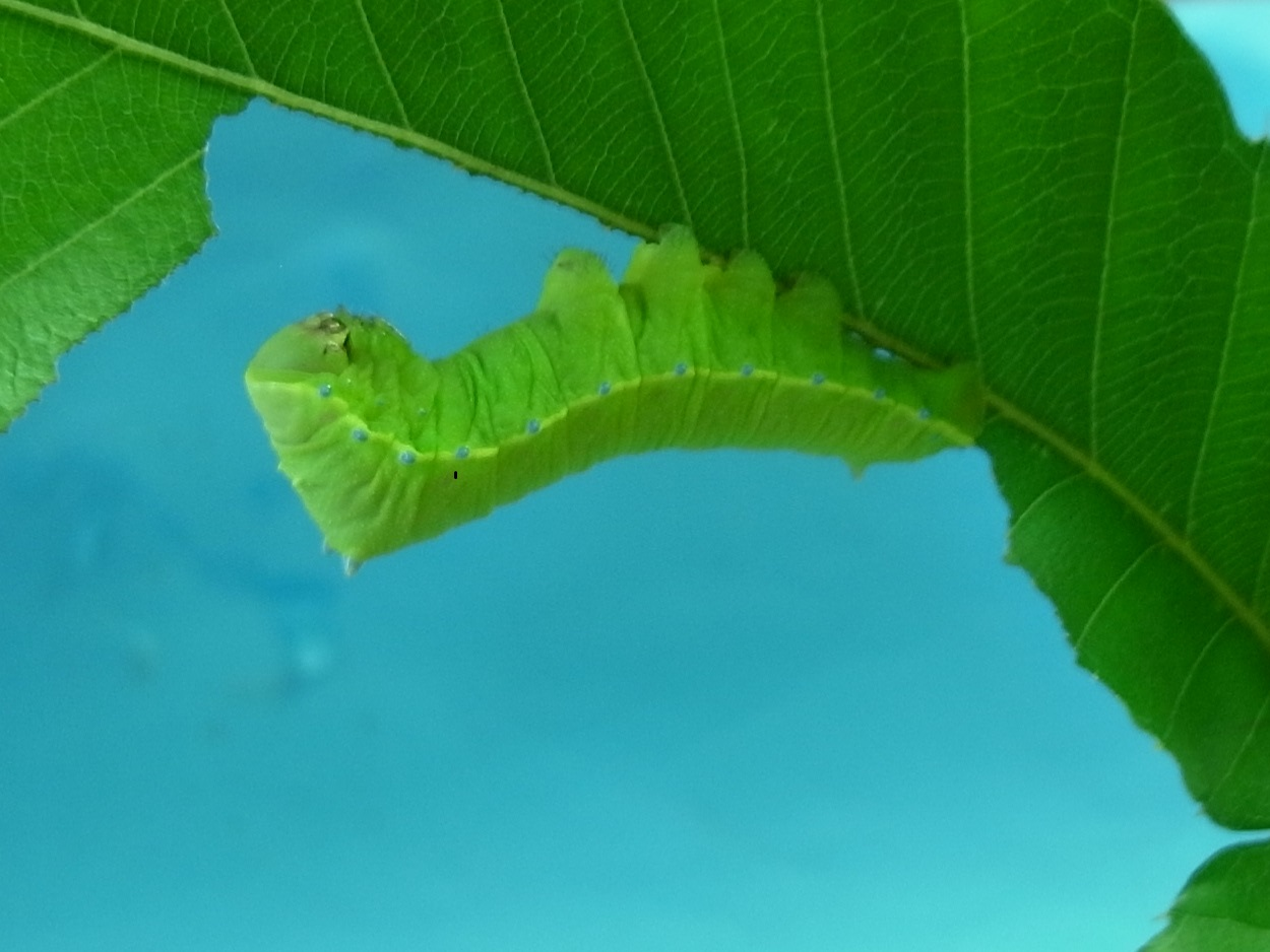 Final larvae of Rhodinia fugax